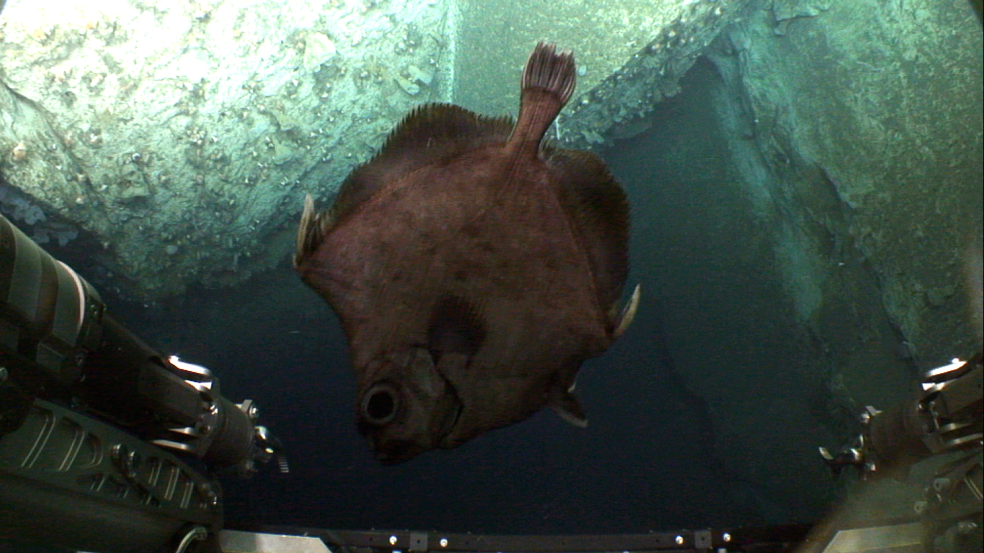 An "oreo" fish cruises between Deep Discoverer and a canyon wall. Alvin Canyon, west wall 926-863m